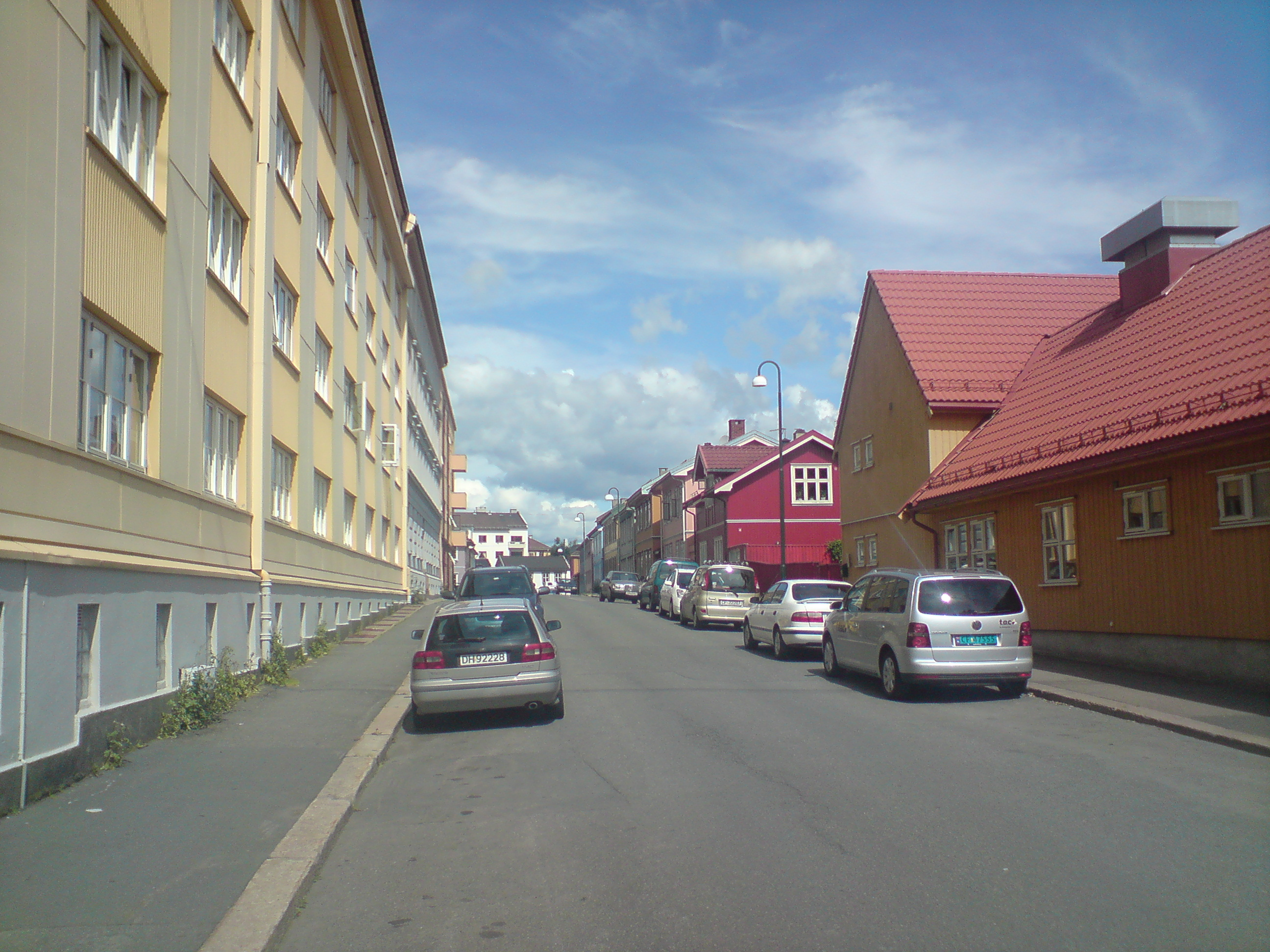 Sverigesgate in Oslo